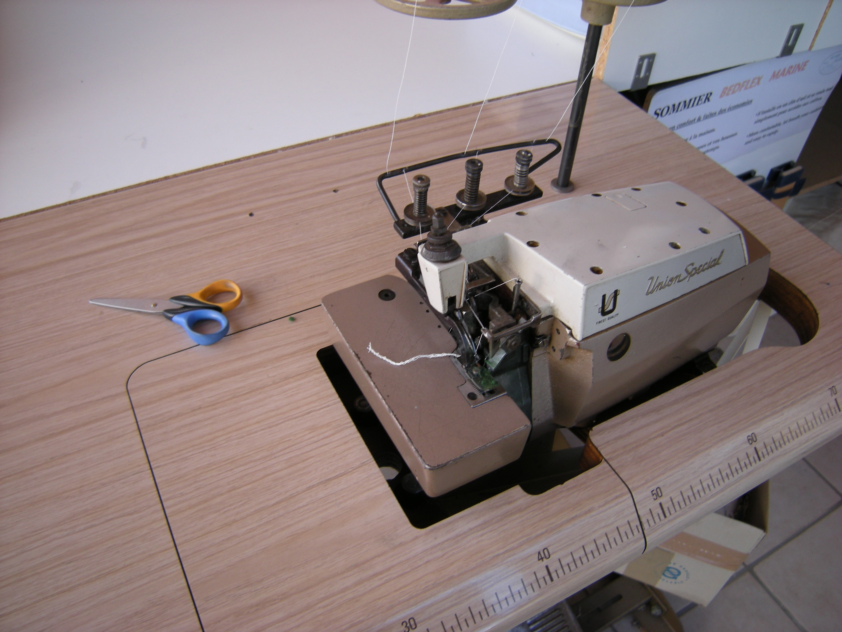 Overlock sewing machine 3 thread.